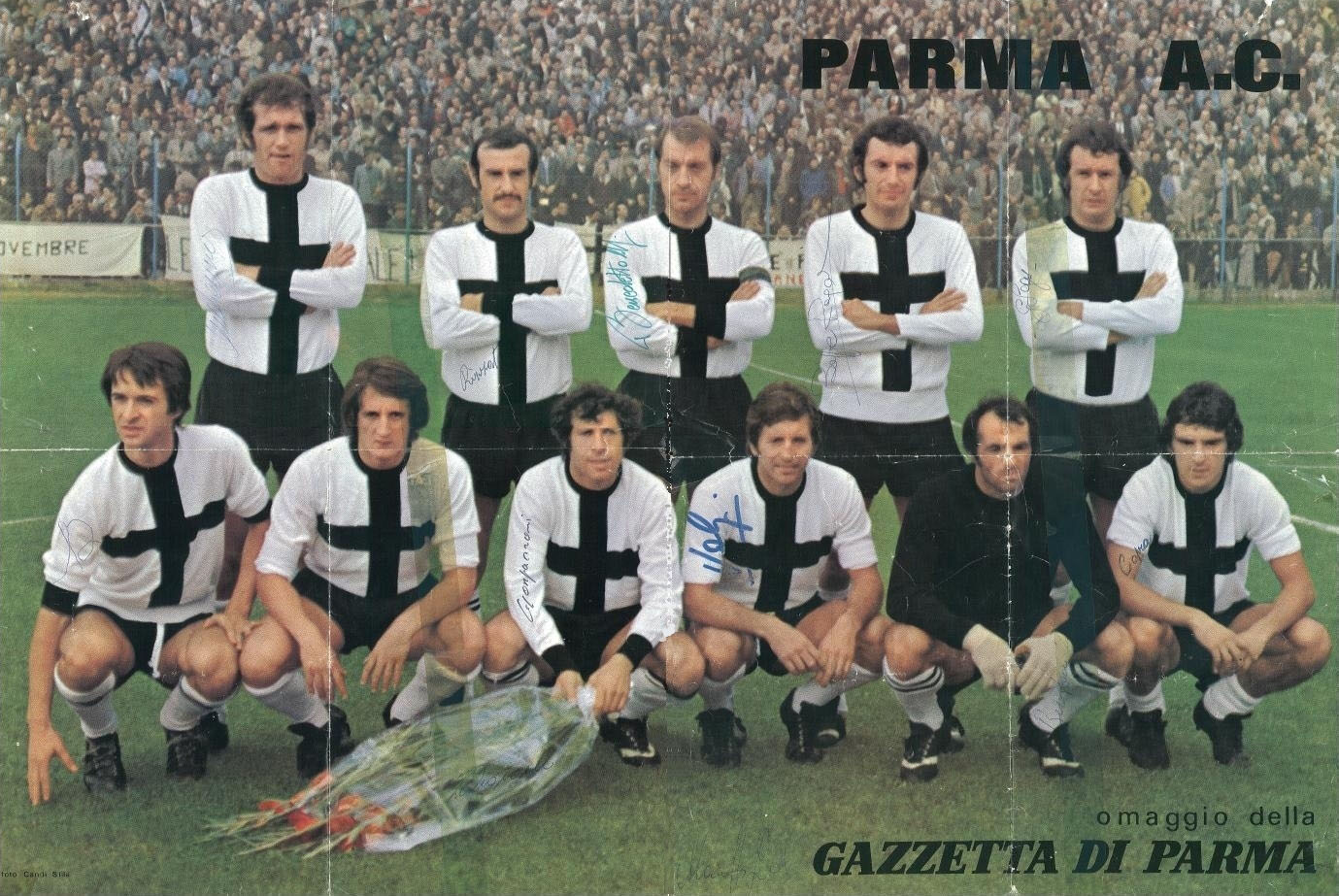 Ferrara (Italy), Communal Stadium, October 14, 1973. A line-up of Parma A.C. took to the field in the away tie versus S.P.A.L. (0-0), Matchday 3 of the Italian League 1973–74 Serie B. From left to right, standing: G. Andreuzza, A. Rizzati, M. Benedetto (captain), G. Regali, G. Sega; crouched: F. Daolio, G. Colonnelli, R. Gasparroni, C. Volpi, L. Bertoni, A. Capra.